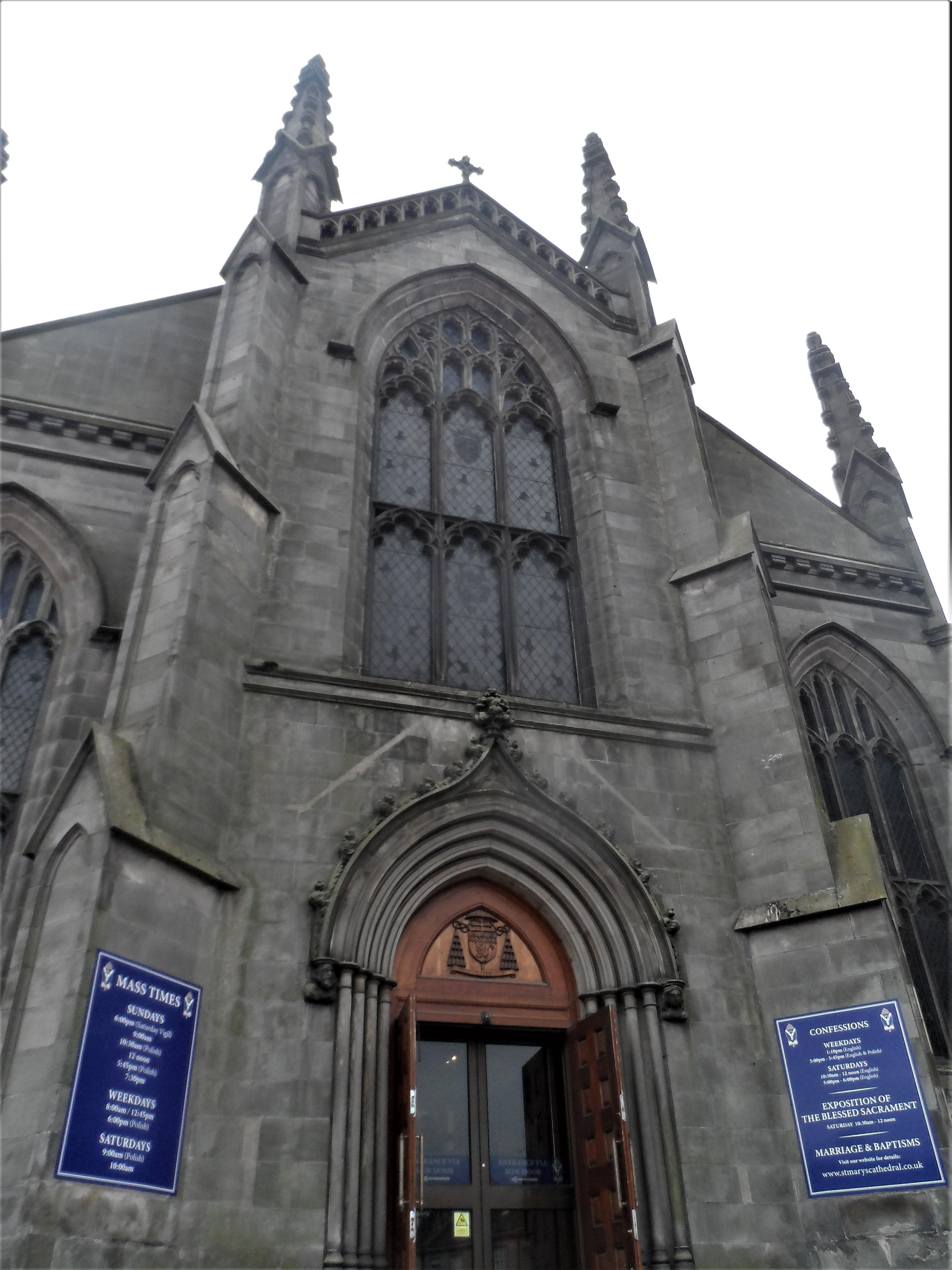 Edinburgh catholic cathedral